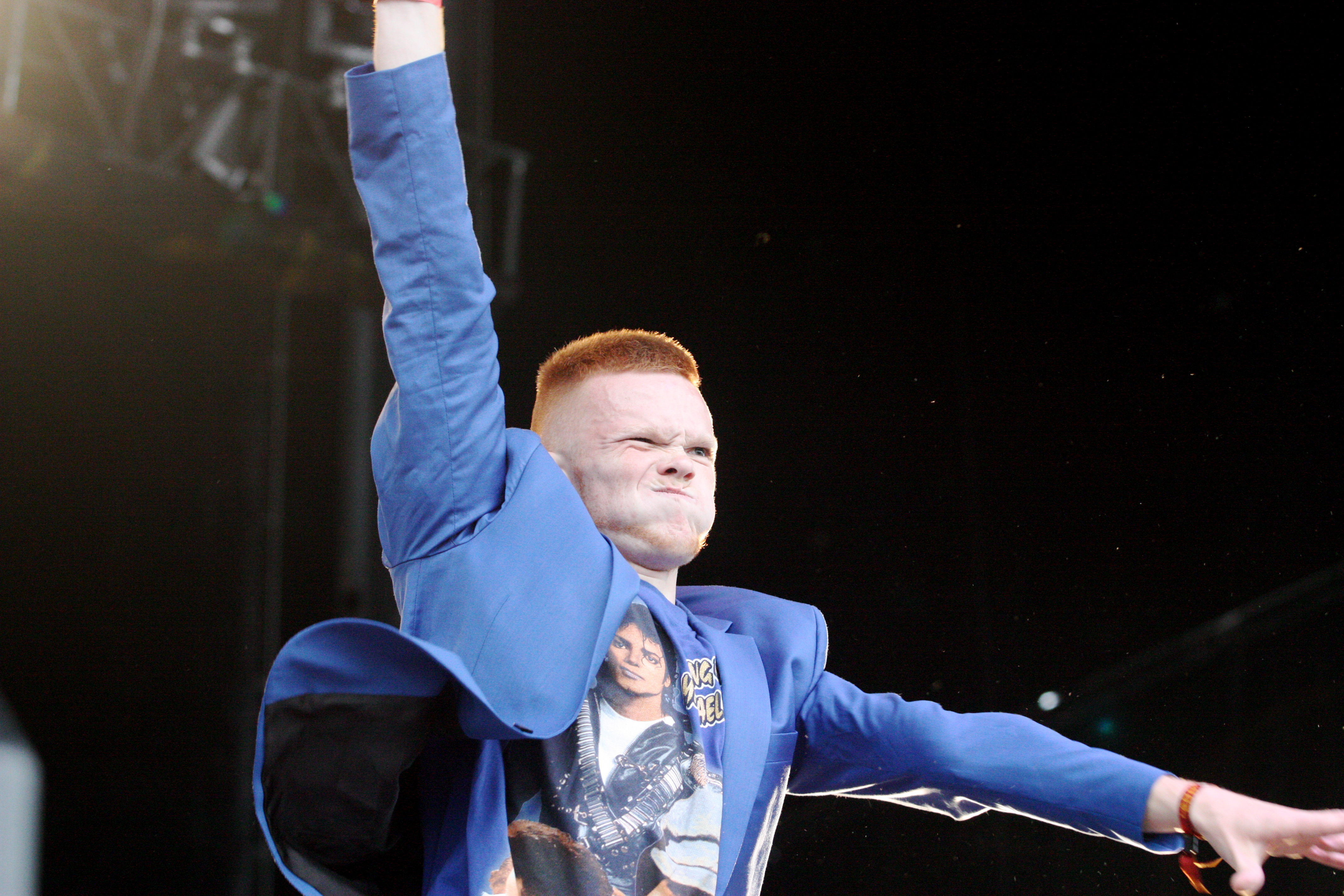 A person on stage during M.I.A.'s performance at Outside Lands 2009